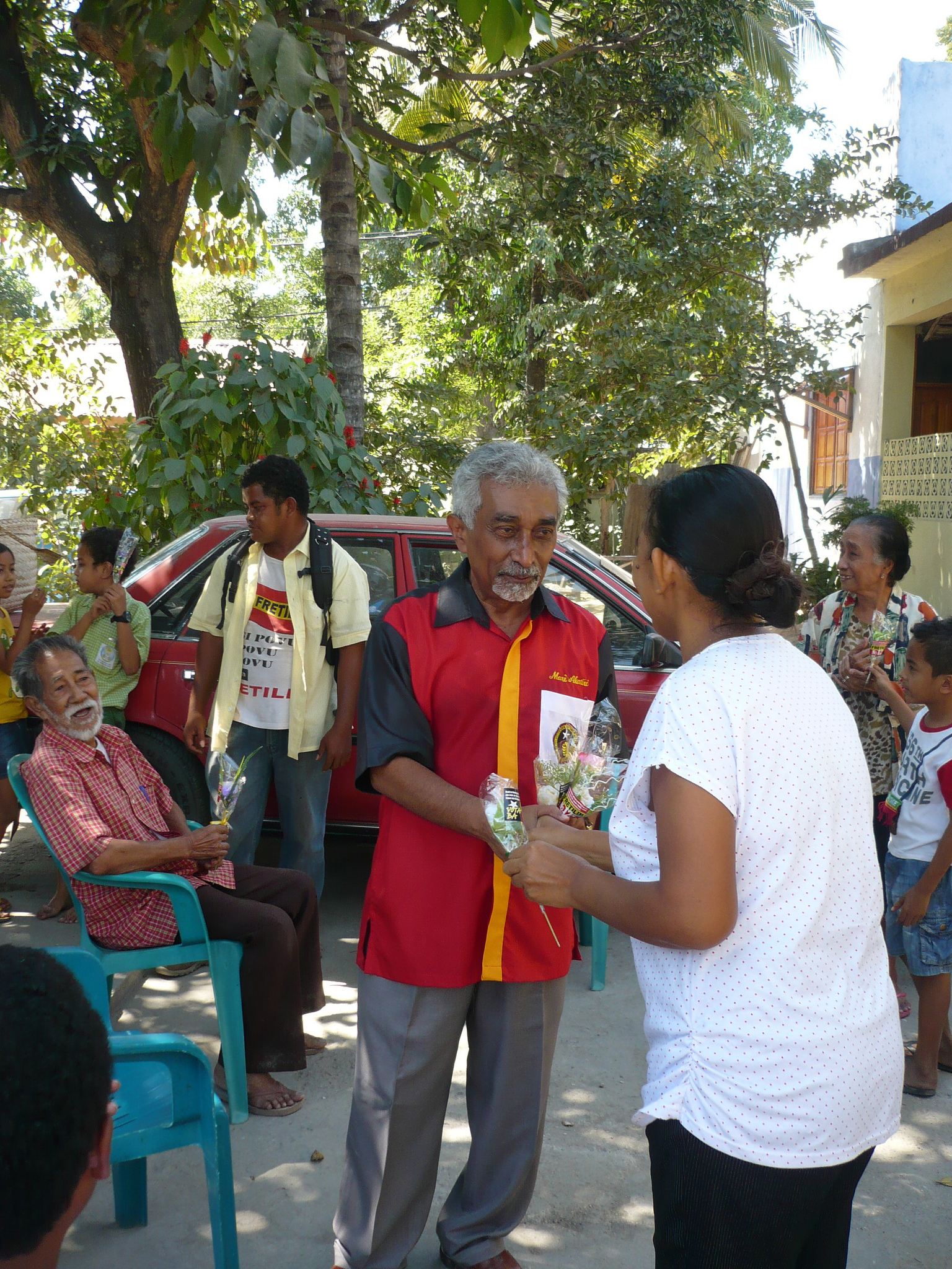 Marí Bin Amude Alkatiri during the FRETILIN campaign. Door-to-Door campaign handing out flowers to citizens.